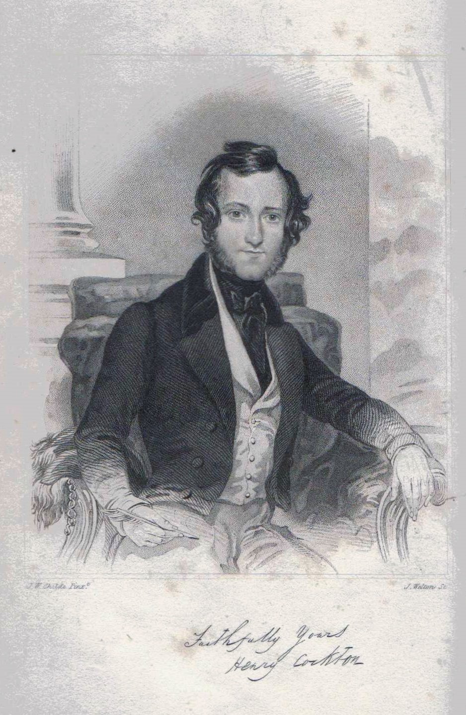 An engaved portrait of Henry Cockton, published in 1841.